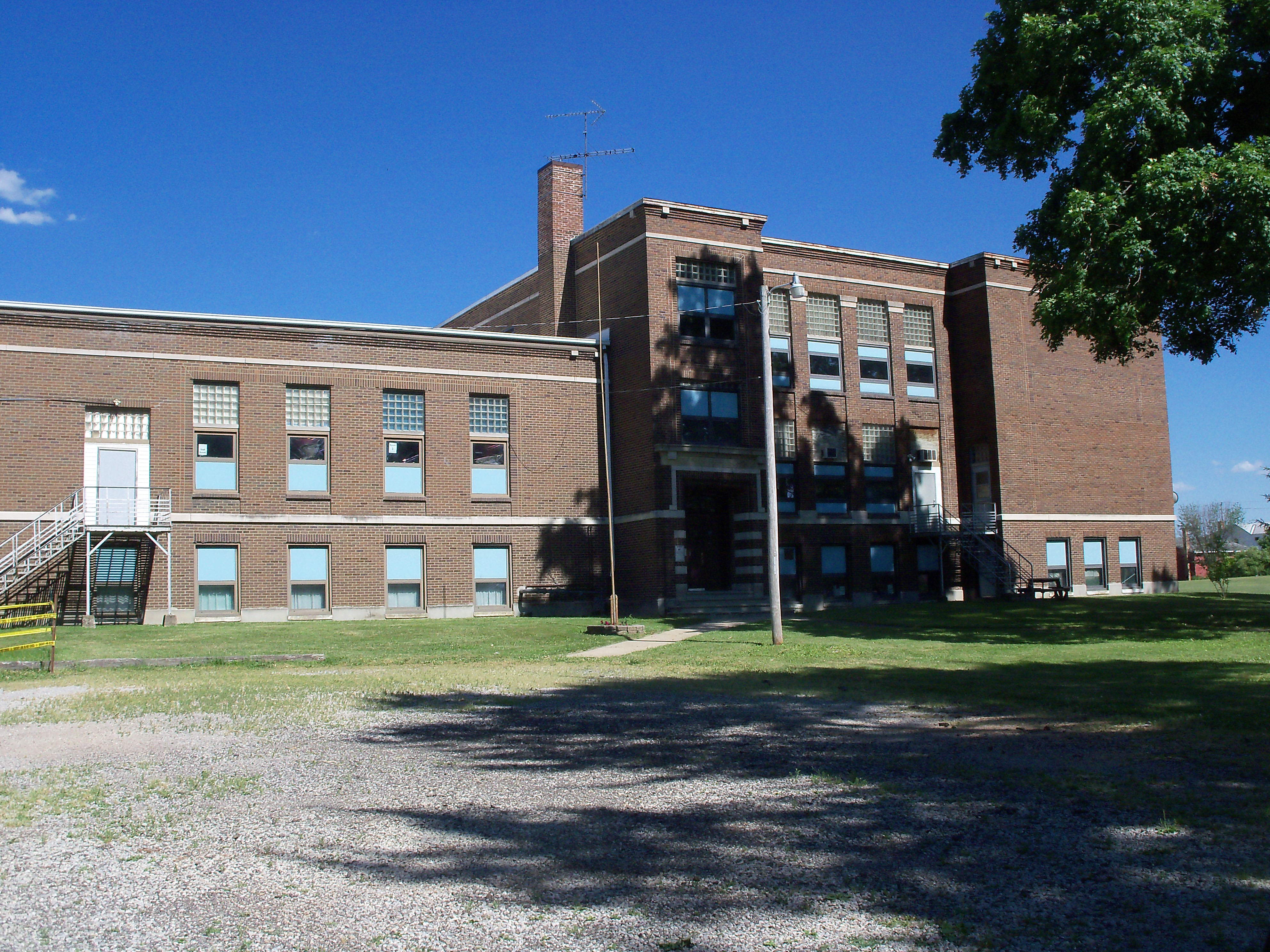 Sullivan, Ohio High School, now head start facility